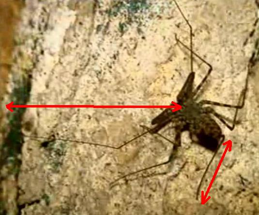 Comparing front Amblypygi leg to rear one